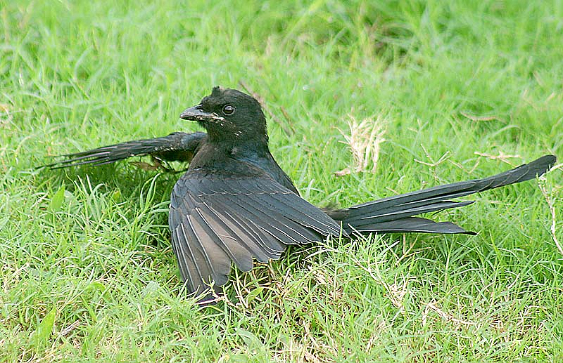 Black Drongo Dicrurus macrocercus in Kolkata, West Bengal, India.